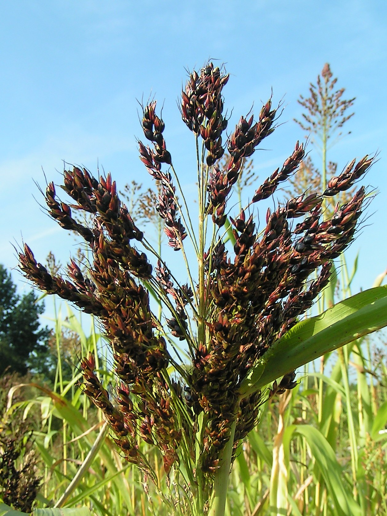 Sorghum bicolor 2005, sep 4 by pethan Botanical Gardens Utrecht University